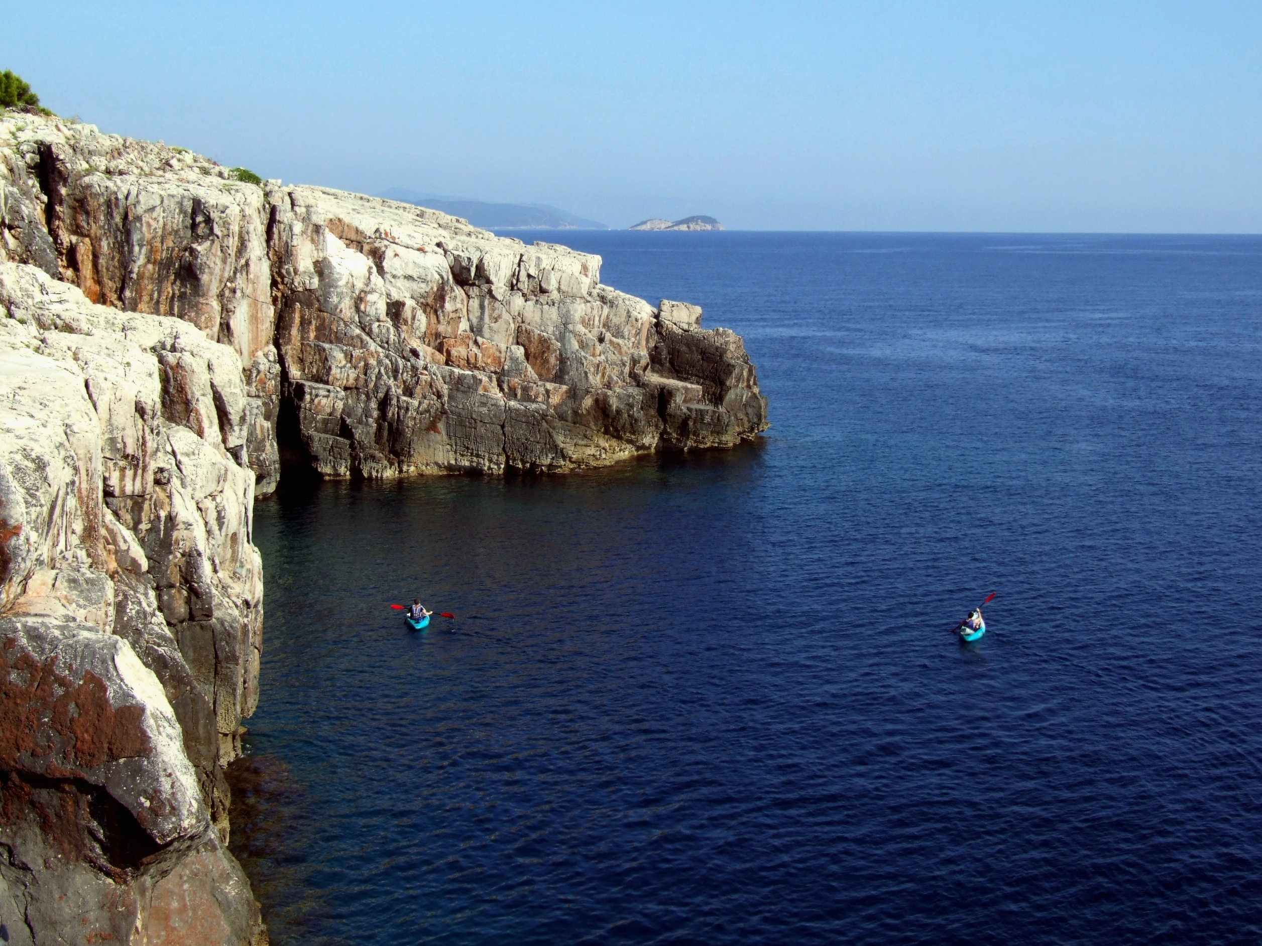 Lokrum island, Croatia - cliffs